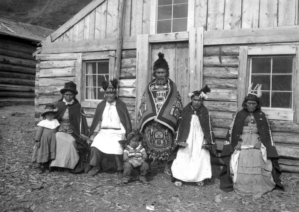 Tahltan shaman and dancers, British Columbia, Canada